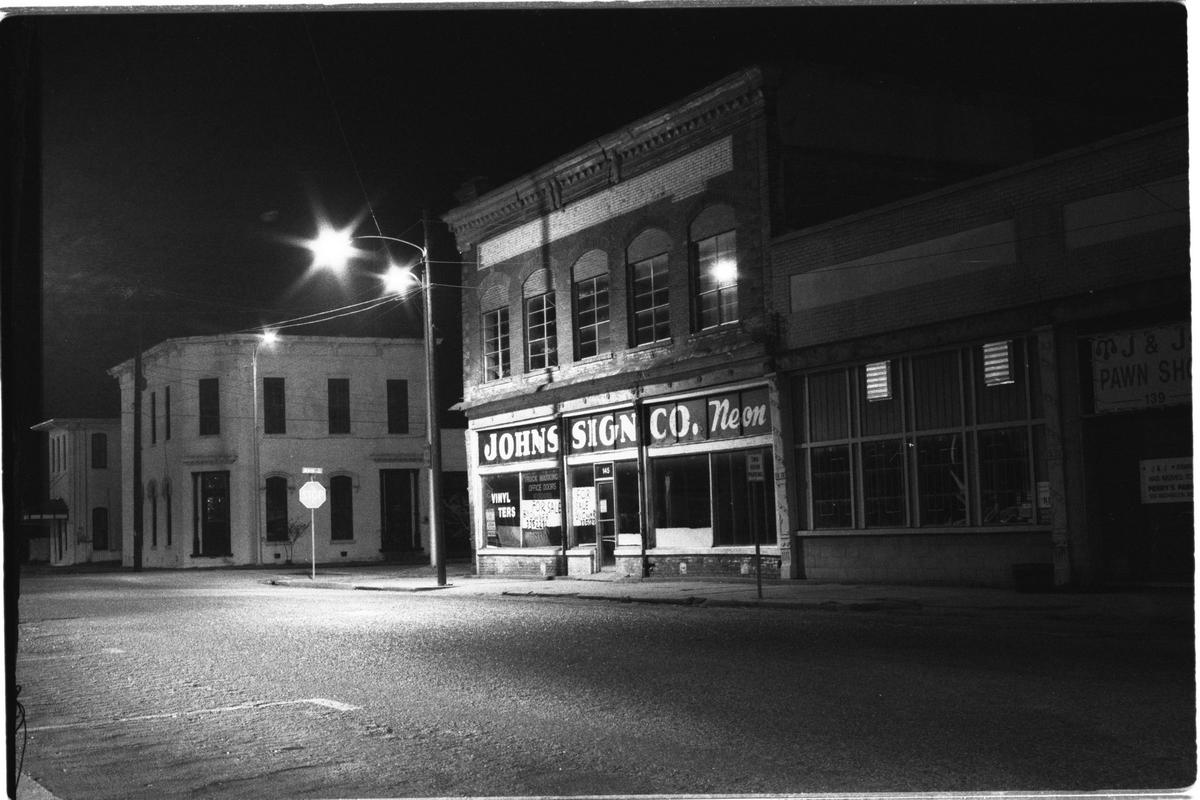 Greenville Mississippi; night view. John's Sign Company building at the corner of Walnut and Main streets in 1994. Taken with Olympus OM2s with Zuiko 50mm F1.8 lens on Kodak BCN400 black & white film.